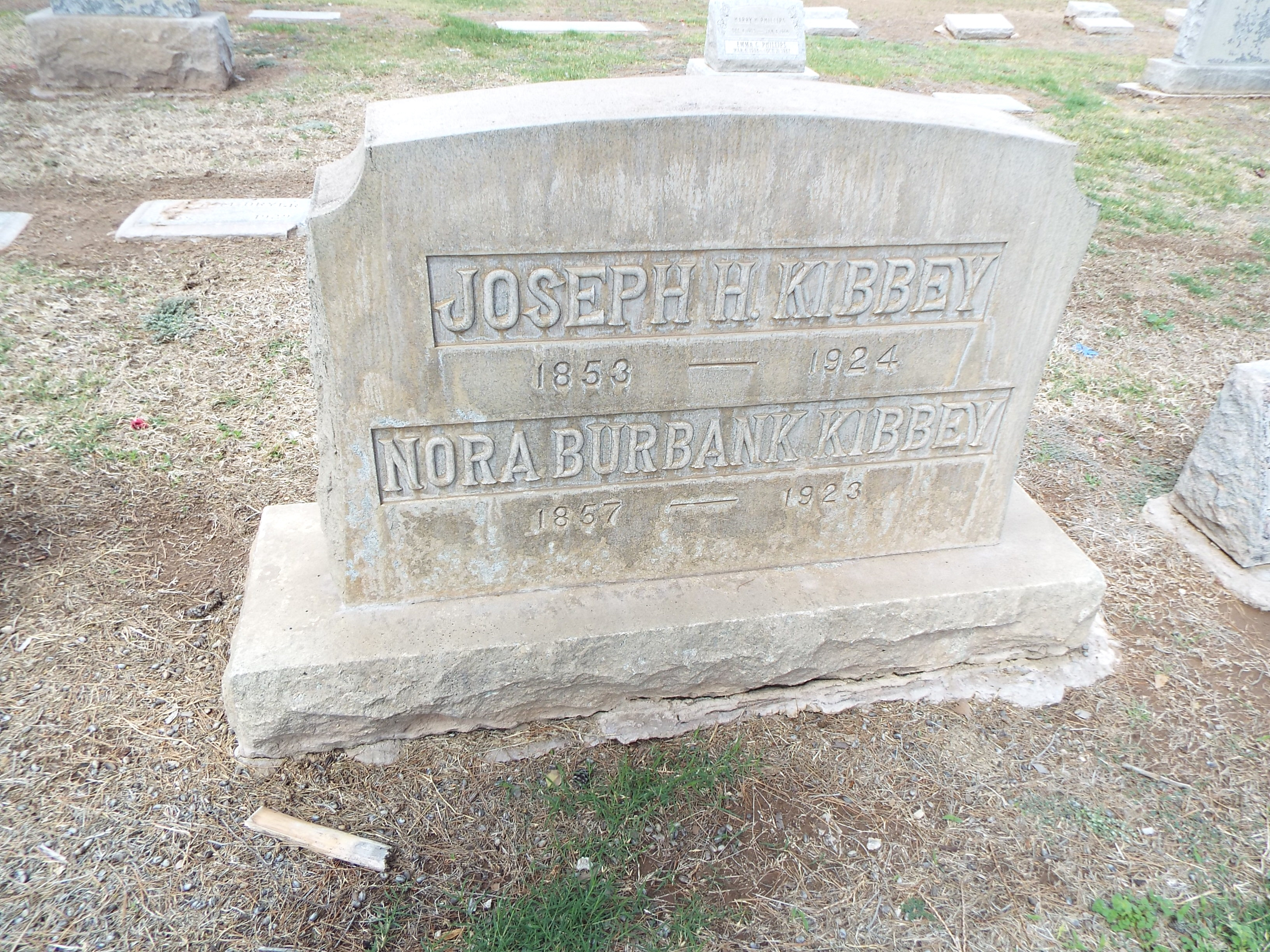 Grave-site of Joseph H. Kibbey (March 4, 1853-June 14, 1924) and Nora Burbank Kibbey (1867-1923). J.H. Kibbey served as Associate Justice of the Arizona Territorial Supreme Court from 1889 to 1893 and as the 16th Governor of Arizona Territory from 1905 to 1909. As governor, Kibbey was a leader in the effort to prevent Arizona and New Mexico territories from being combined into a single U.S. state.